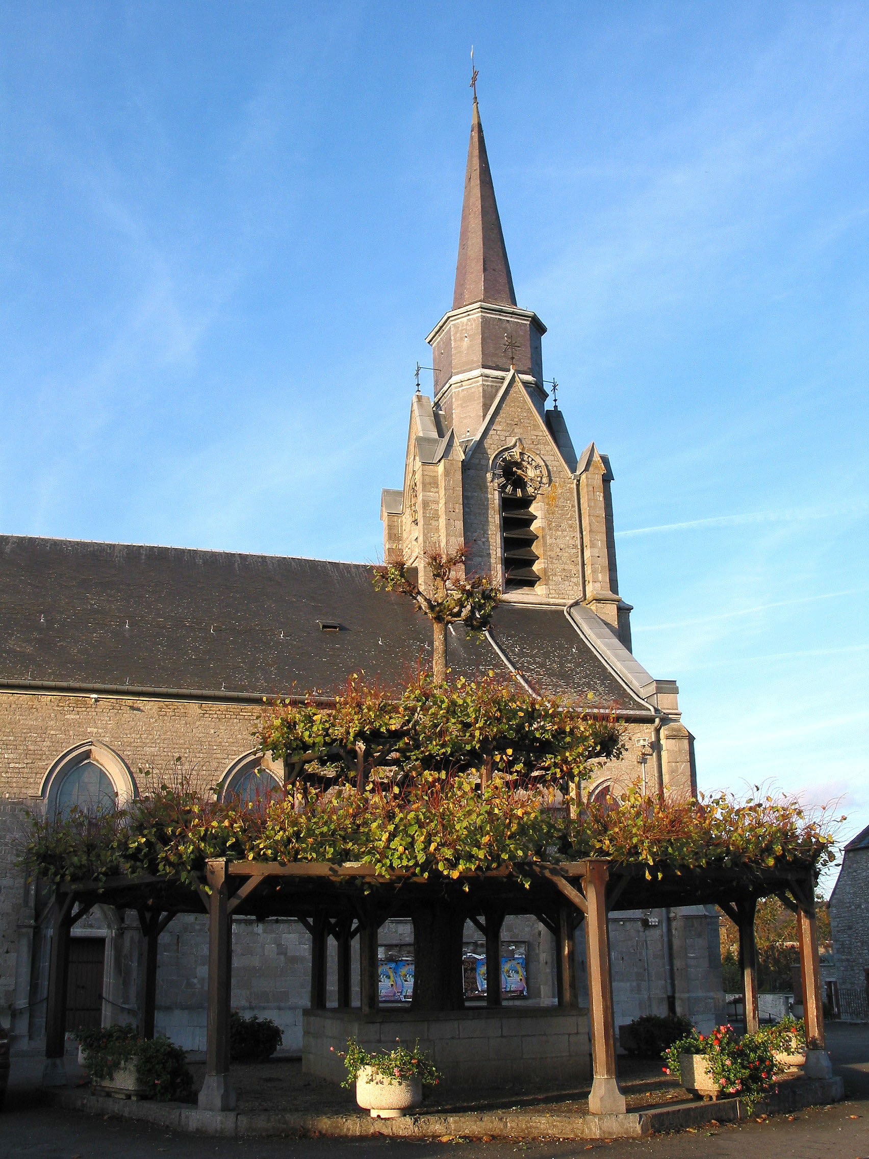 Macon (Belgium), the St. John the Baptist church (1860), the bandstand and the old linden-tree (1714).